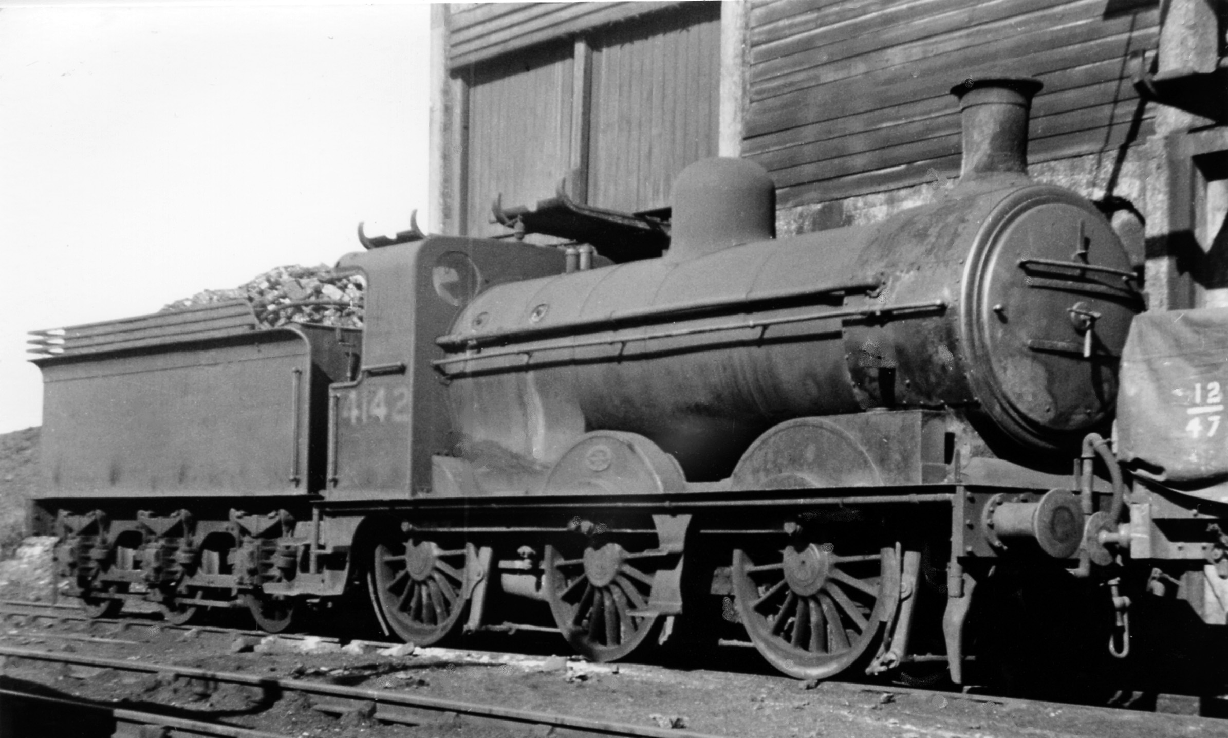 An ex-GN 0-6-0 at Immingham Locomotive Depot. Resting in the Yard is ex-Great Northern J3 0-6-0 No. 4142. (See also TA1915 : A Gresley K2 2-6-0 at Immingham Locomotive Depot).